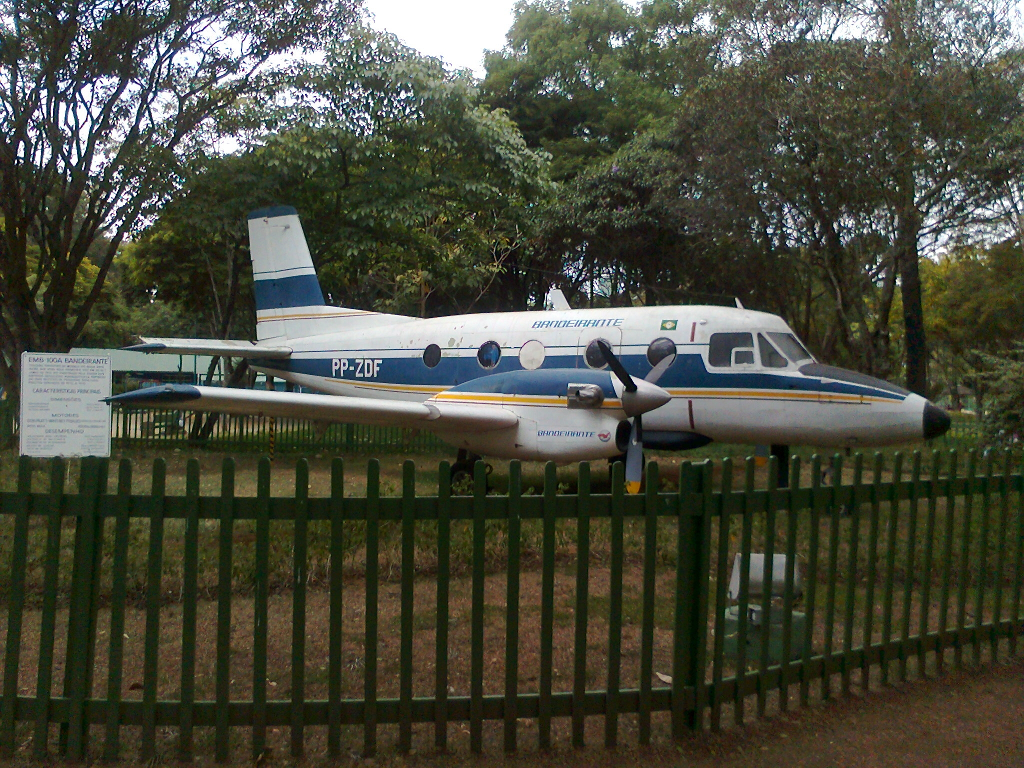 EMB-100 (YC-95) Prototype Nr.3